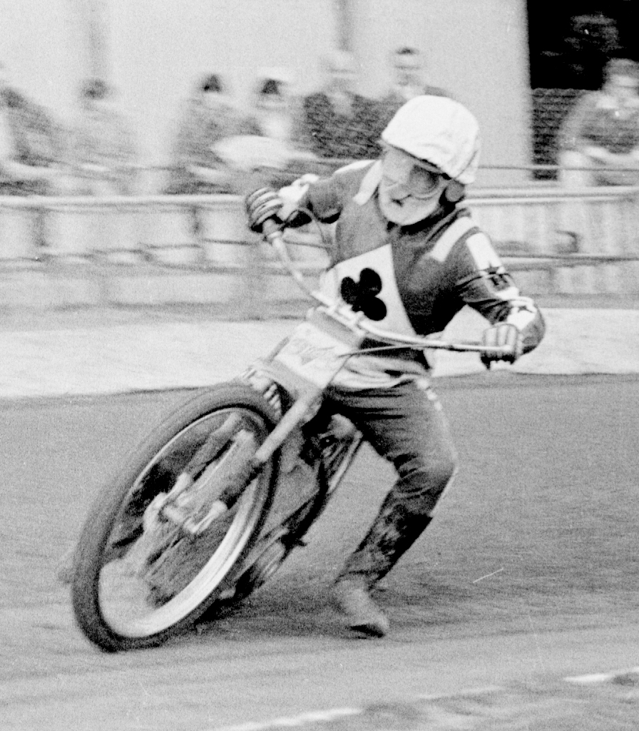 Soren Sjosten, riding for Belle Vue Aces at Oxford